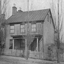 "In 1852 Phi Kappa Psi Fraternity was founded in the attic of the house that stood here, where founder William Letterman (the spelling he used) lived with his widowed mother. His brother, Jonathan, devised the MASH concept during the Civil War."